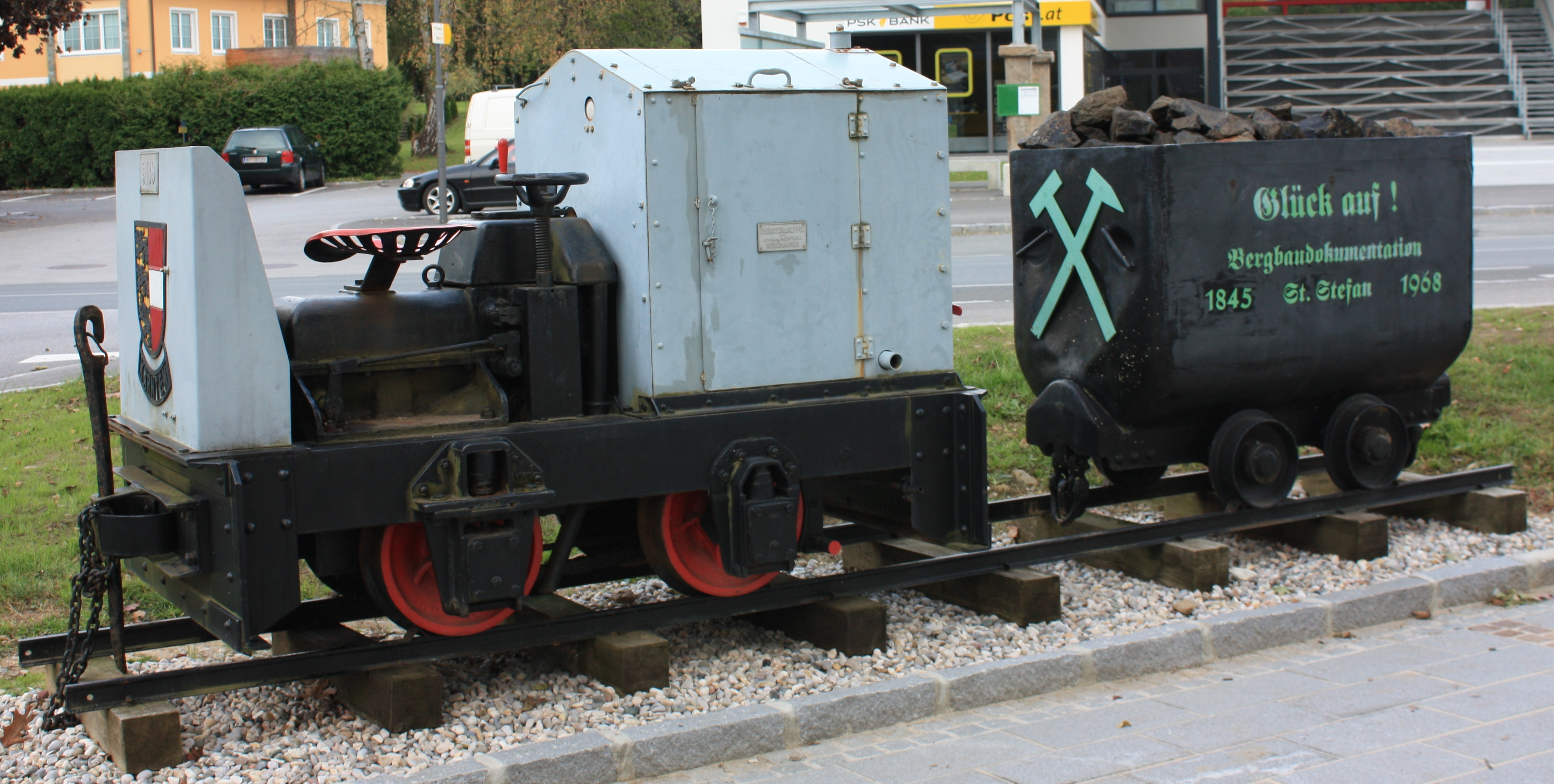 Train from the former coal-mine Locality: Sankt Stefan im Lavanttal Community:Wolfsberg